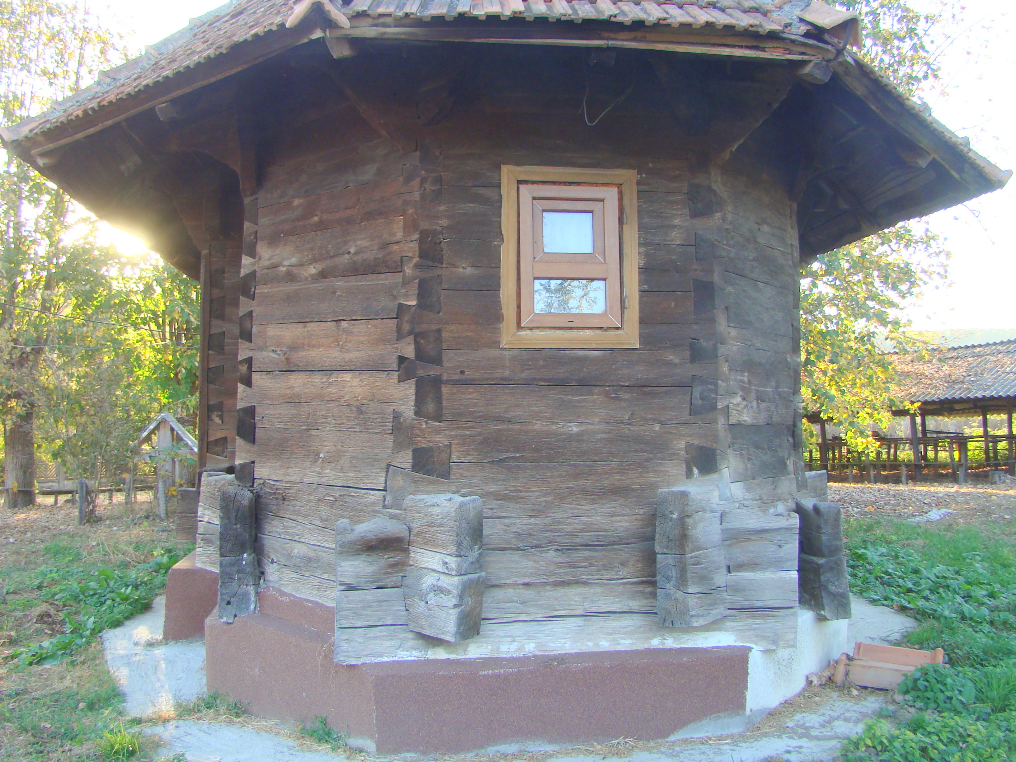 Wooden church in Slivilești, Gorj county, Romania